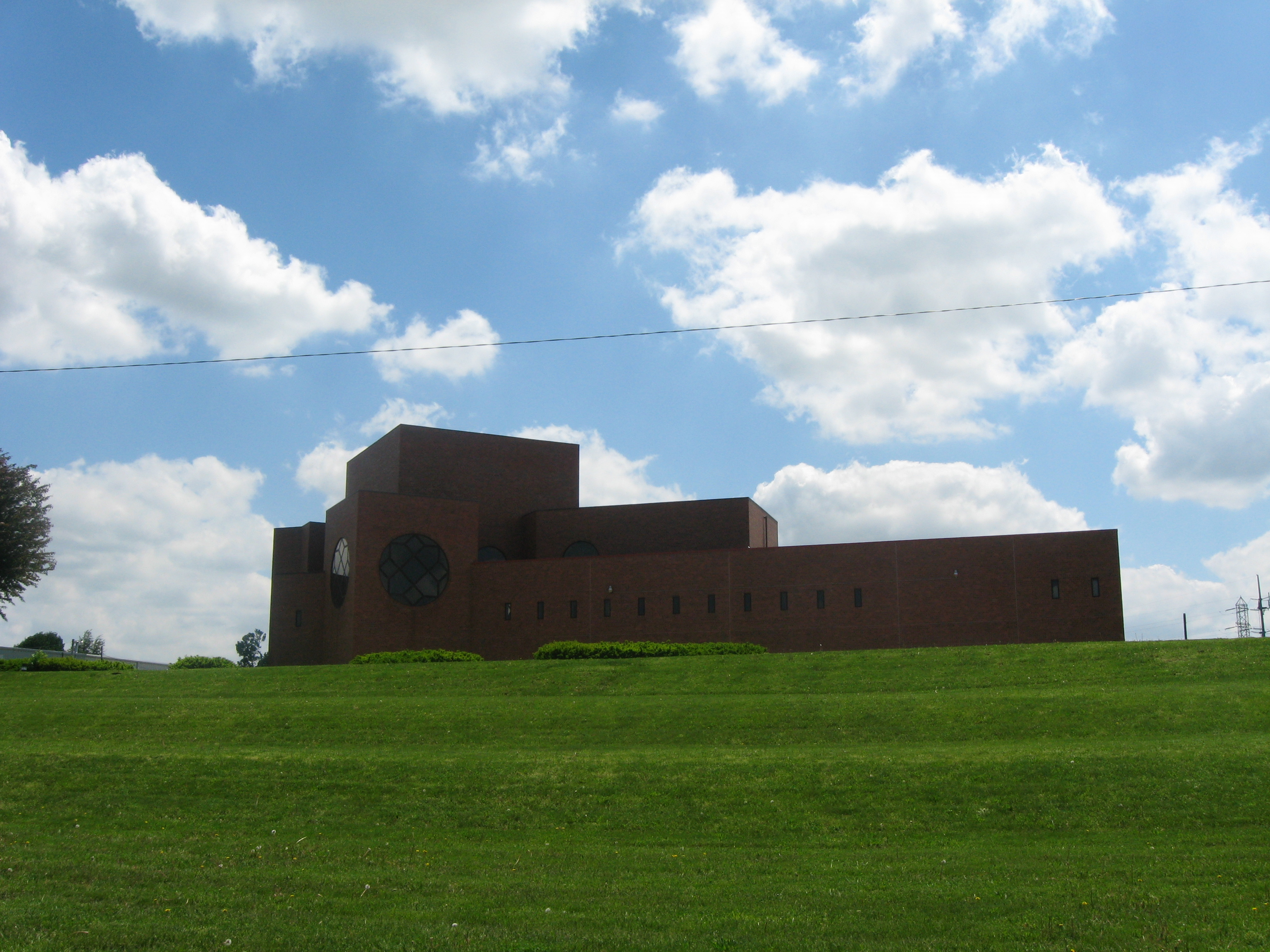 The Islamic Society of North America (ISNA) building, Plainfield IN